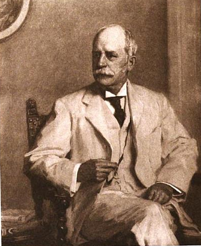 OCLC-12658402 Able I. Smith